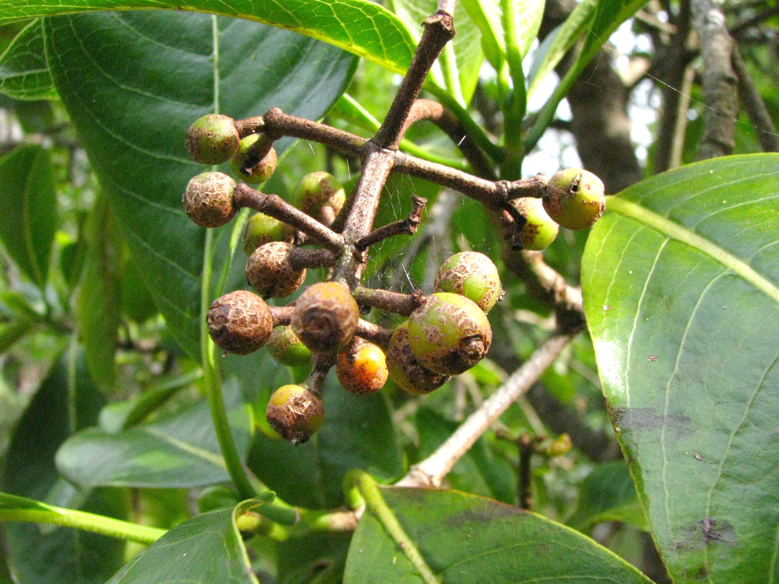 Kōpiko, Kōpiko ʻula, or ʻŌpiko Rubiaceae Endemic to the Hawaiian Islands Kīpukapuala, Hawaiʻi Island Green & semi-ripe fruits.